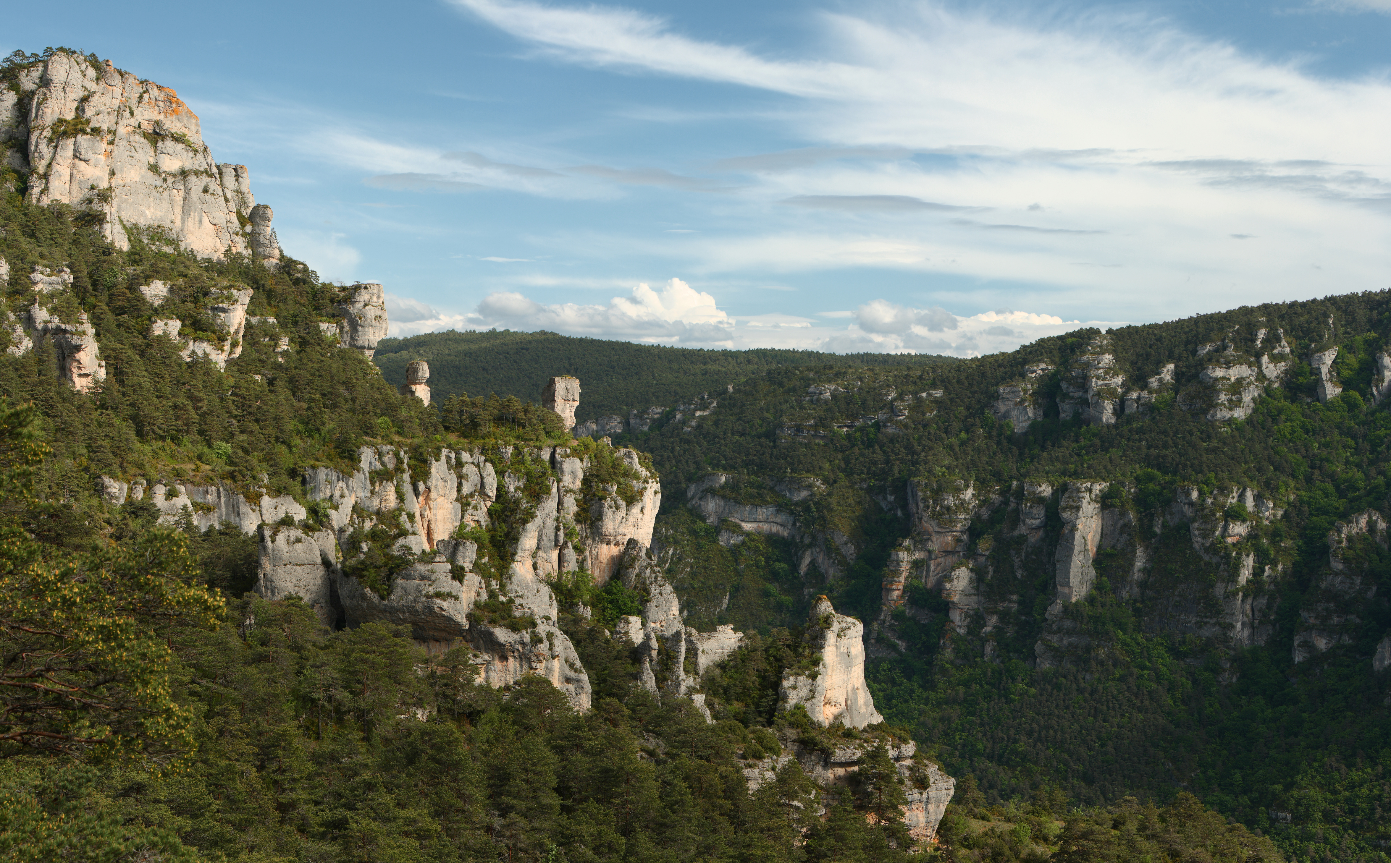 Jonte gorges, in Lozère, south of France. This picture features the vase of China and the vase of Sèvre.